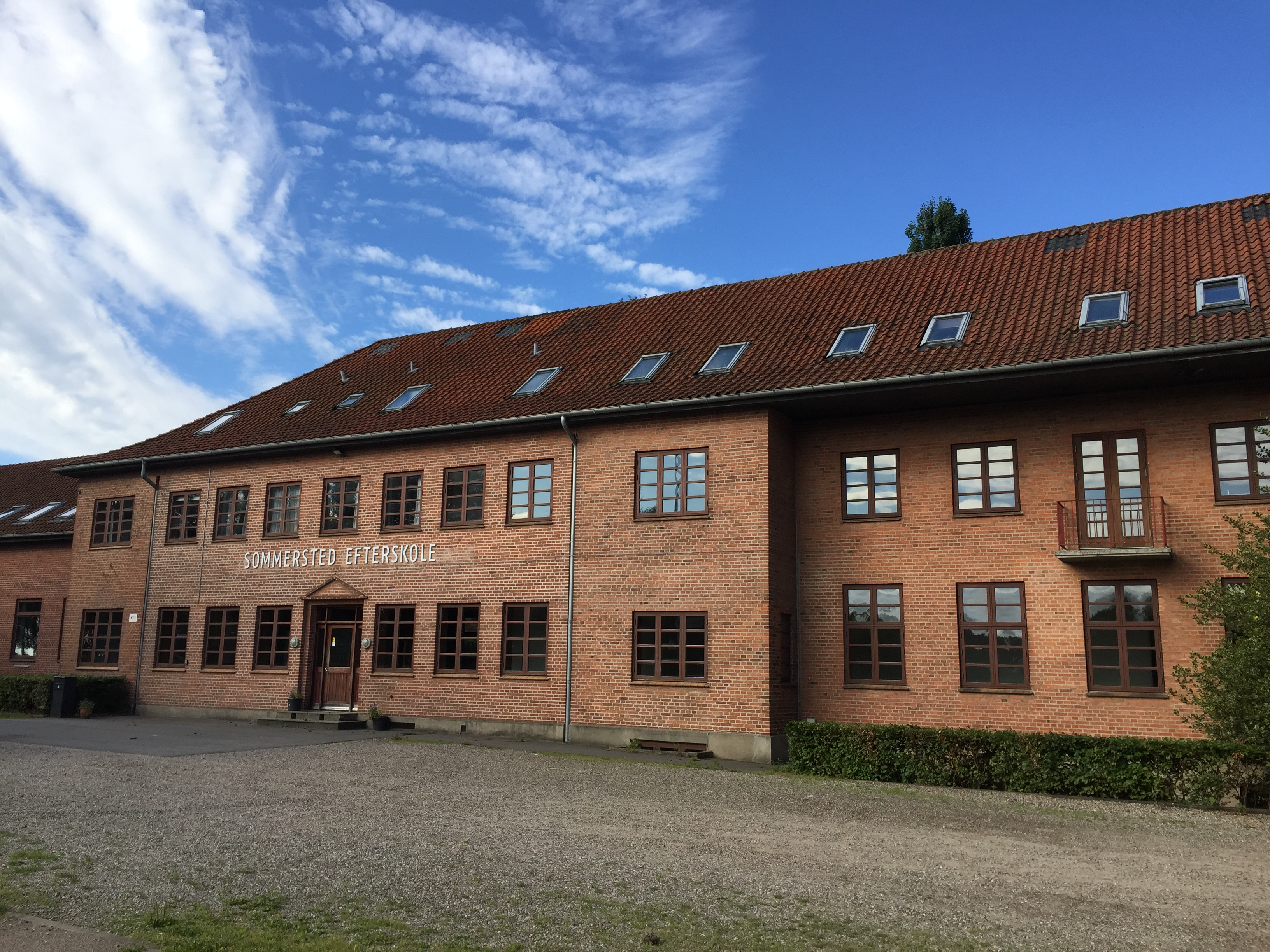 Sommersted Efterskole